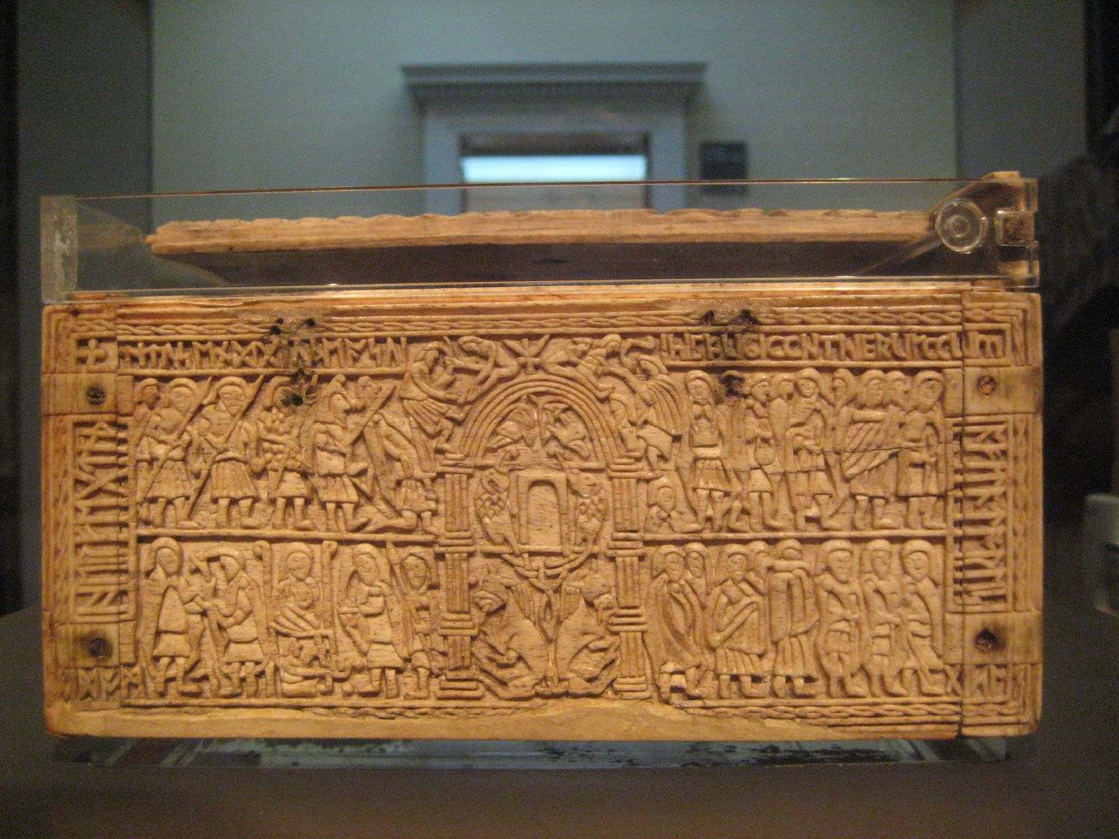 Back panel of the Franks casket.